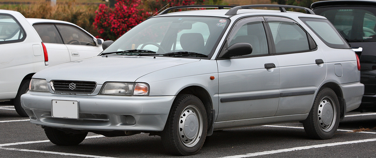 Suzuki Cultus Crescent Wagon (GC21W)